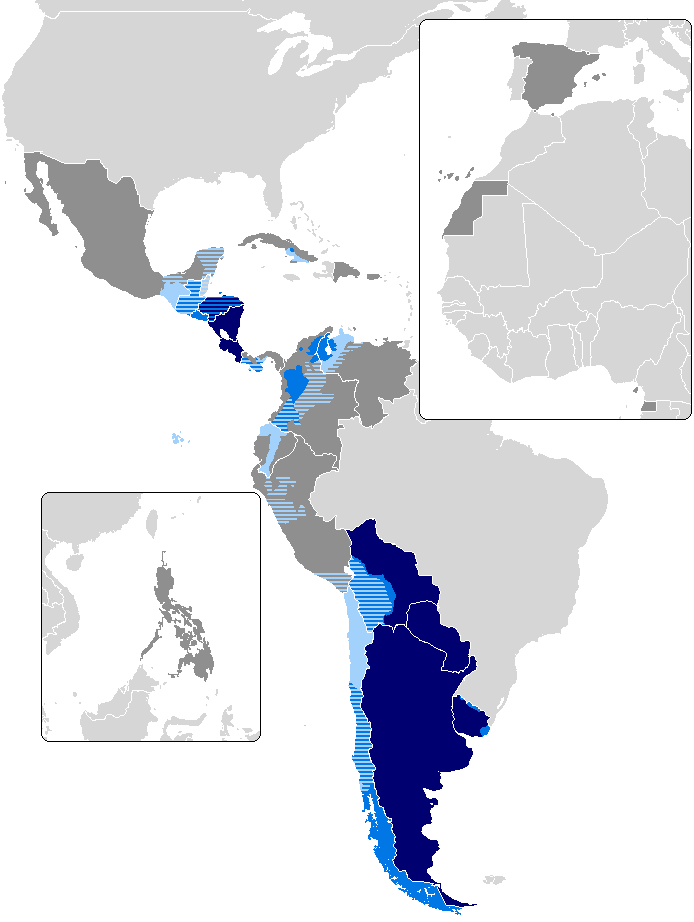 Map of countries with voseo phenomena: primary spoken and written form primary spoken, but not in written form 'Voseo' coexists with 'tuteo' Spanish-speaking country with voseo non-existent